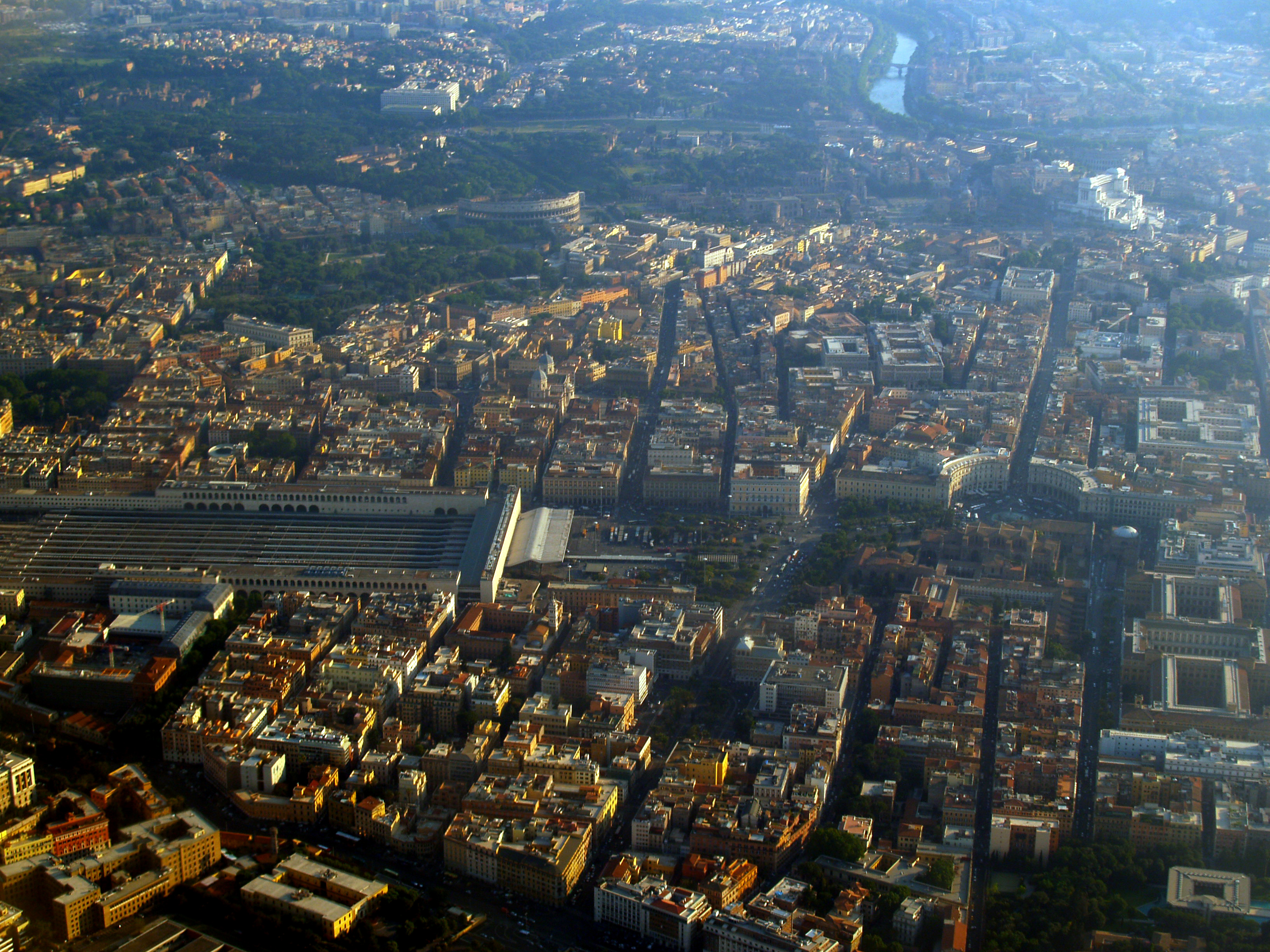 Rome from above. The two parts of the stazione termini are seen in the centre-left: to the far left, the fascist part of the station, edifici laterali della Stazione Termini, by Angiolo Manzoni, 1937-1943. At the centre, the post-war main space with its great cantilevered roof known as the dinosaur. architects: Leo Calini, Eugenio Montuori, Massimo Castellazzi, Vasco Fadigati, Achille Pintonello, and Annibale Vitellozzi 1947-1950.